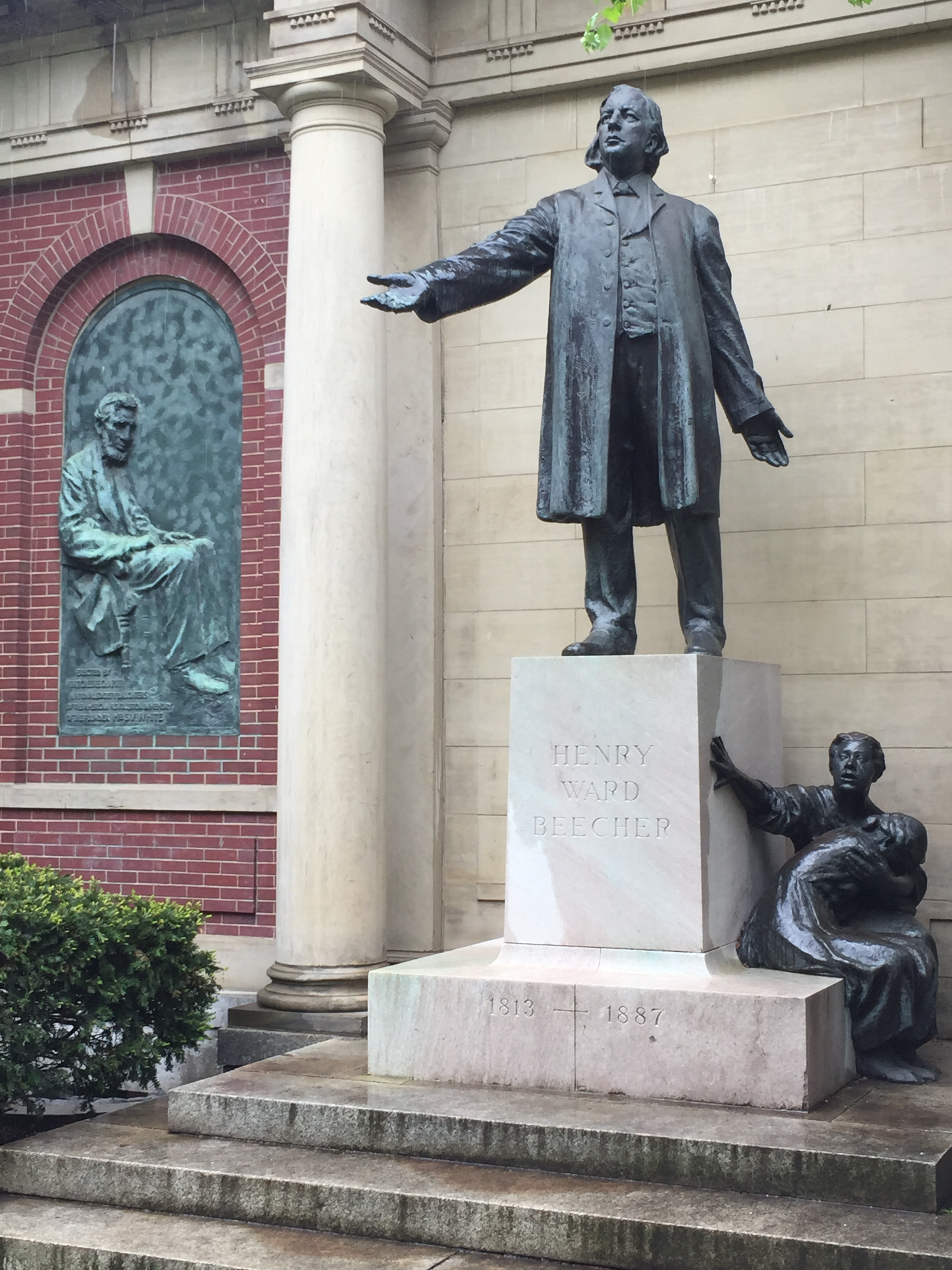 This is a photo of the Beecher statue and Lincoln base-relief infront of Plymouth Church (Brooklyn) in Brooklyn heights.